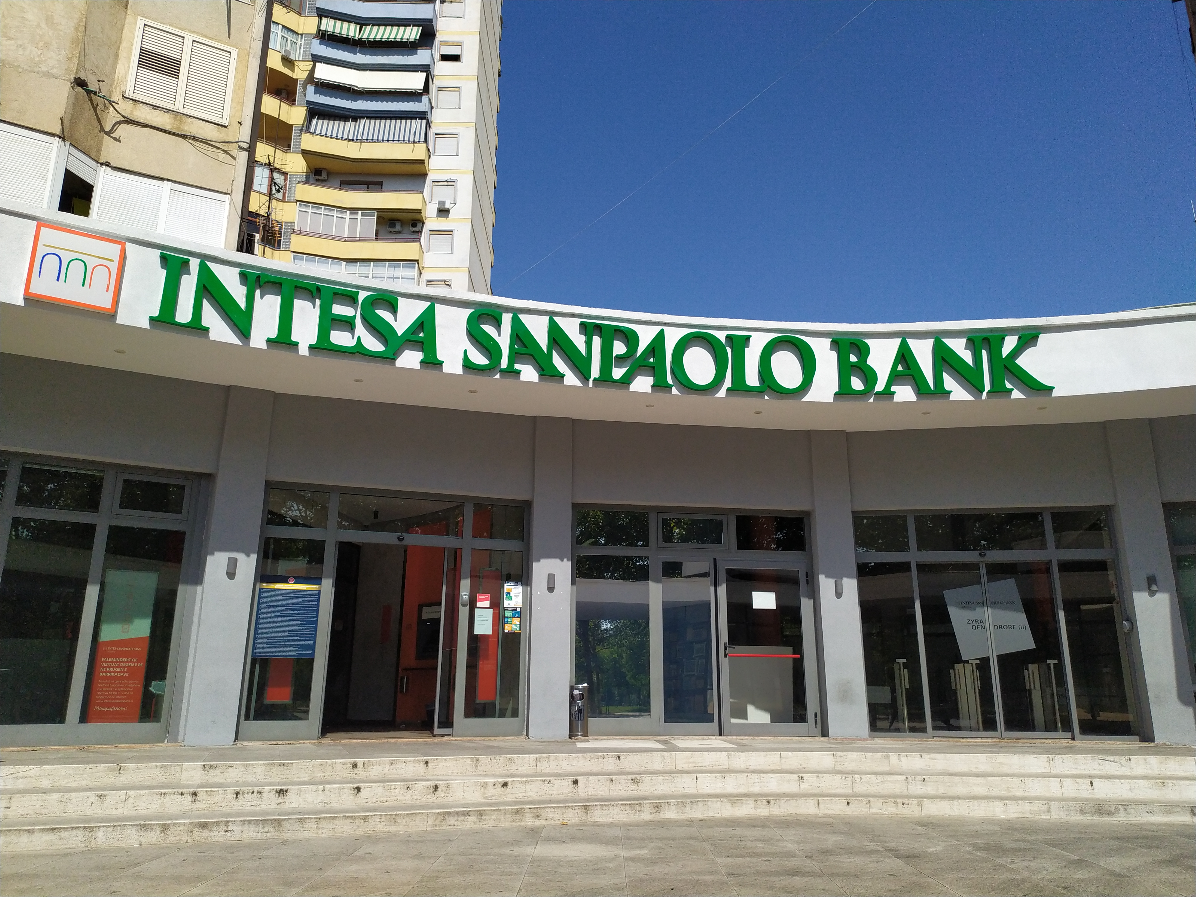 A branch of Intesa Sanpaolo Bank in Tirana, Albania